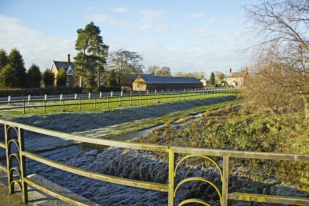 Looking from the fine C19th bridge which crosses the Sence Brook at the bottom of the Bosworth Road. The listed buildings of Stud Farm can be seen.